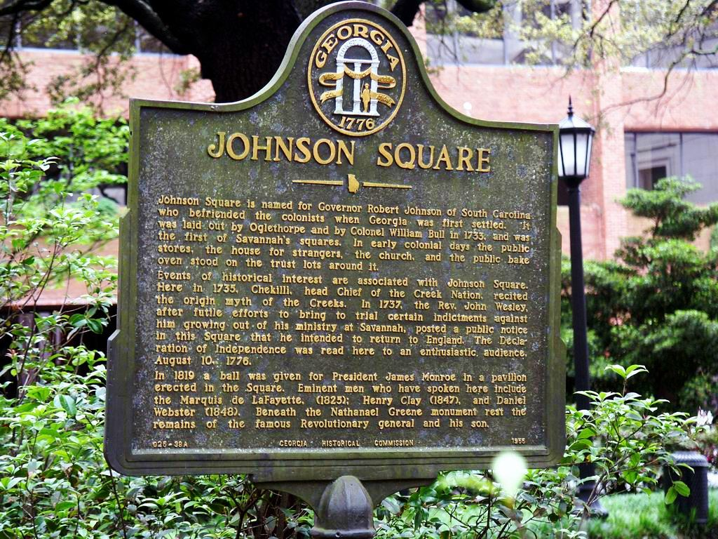 Johnson Square in Savannah, Georgia